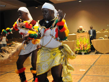 Cultural dancer during the convention.